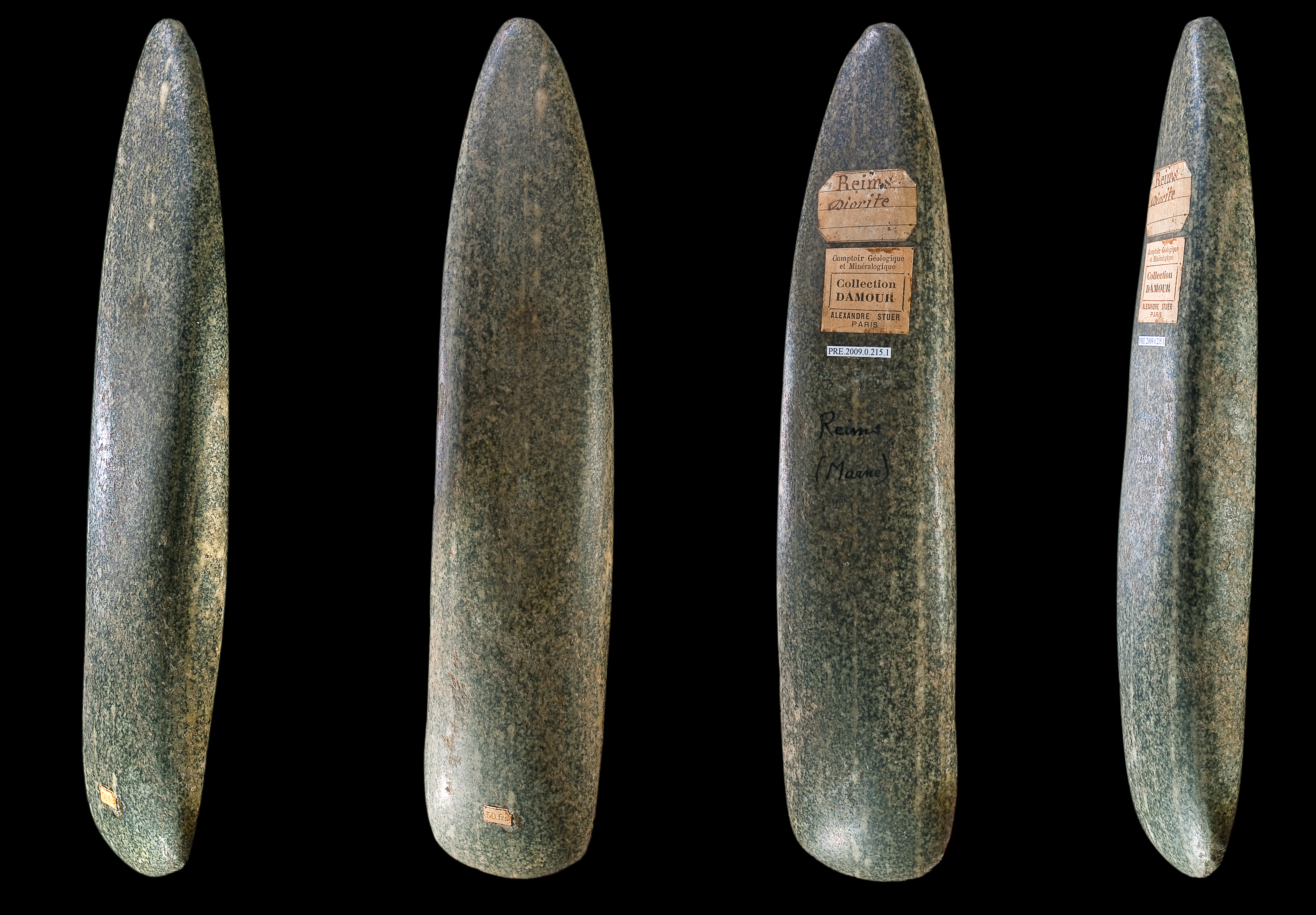 Polished Neolithic ax in diorite - Views of the same object Locality : Surroundings of Reims (Marne) France Alexis Damour Collection - Museum of Toulouse Size : 250x52x33mm